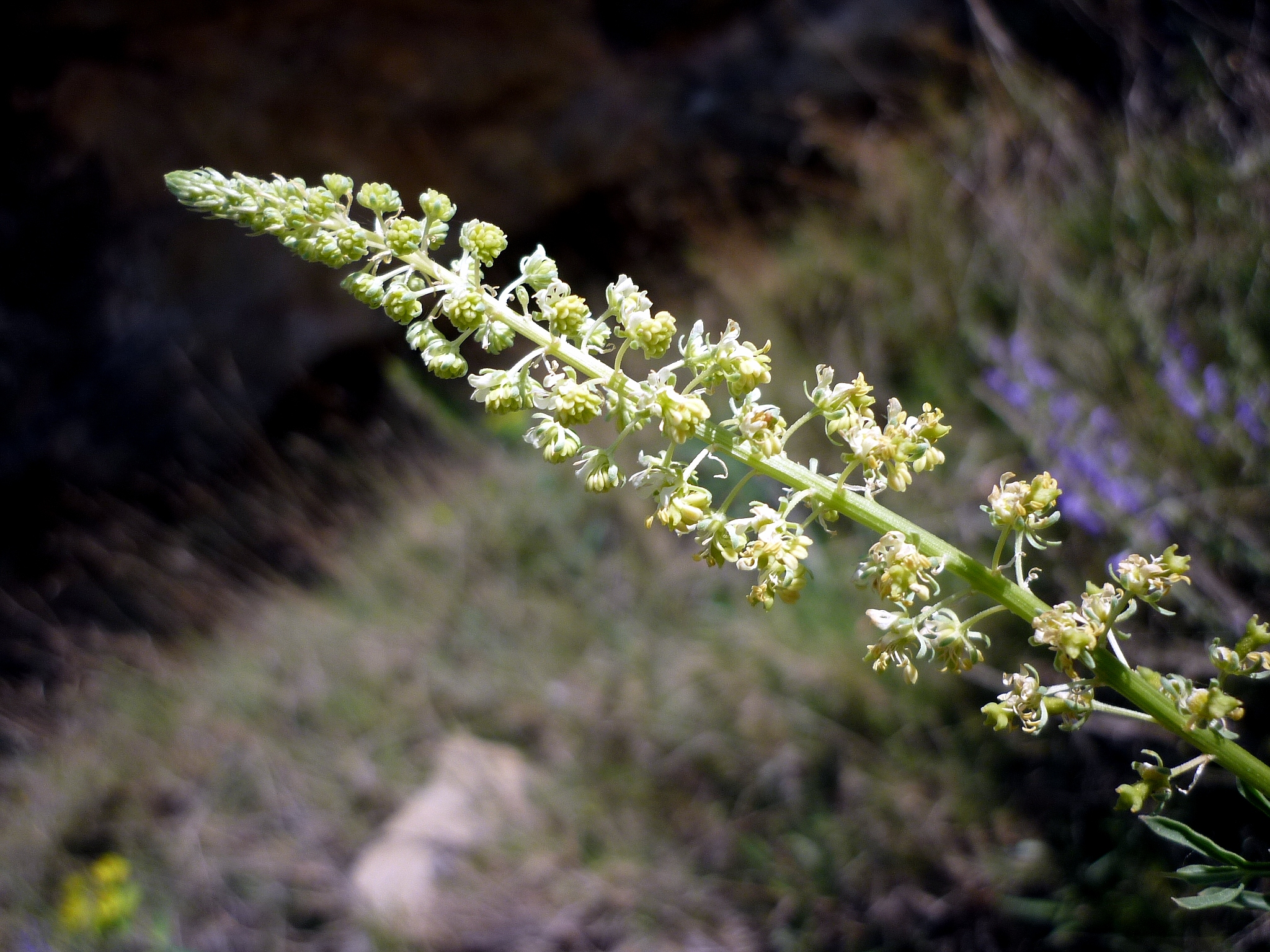 Reseda lutea. In Torà (Segarra-Catalunya). To 580 m. altitude